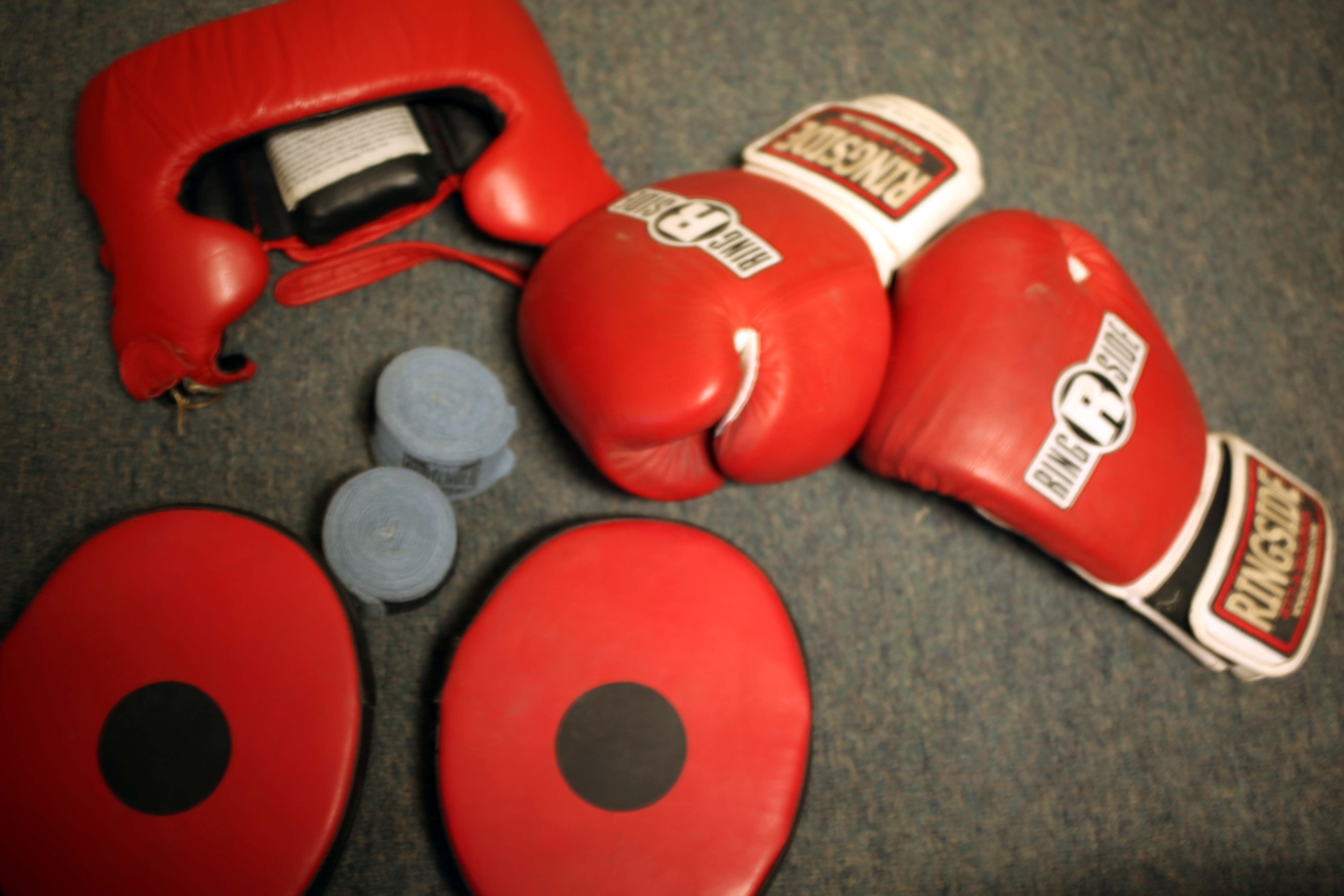 Boxing equipment such as head gear, hand wraps, gloves and hand pads are laid out by Cpl. Alfonzo Ruiz, a field wireman with 2nd Combat Engineer Battalion, 2nd Marine Division, before practicing his boxing skills at a gym aboard Marine Corps Base, Camp Lejeune, N.C., Jan. 8. 2012. Ruiz is currently training five to six days a week to prepare for a tryout for the Marine Corps boxing team.